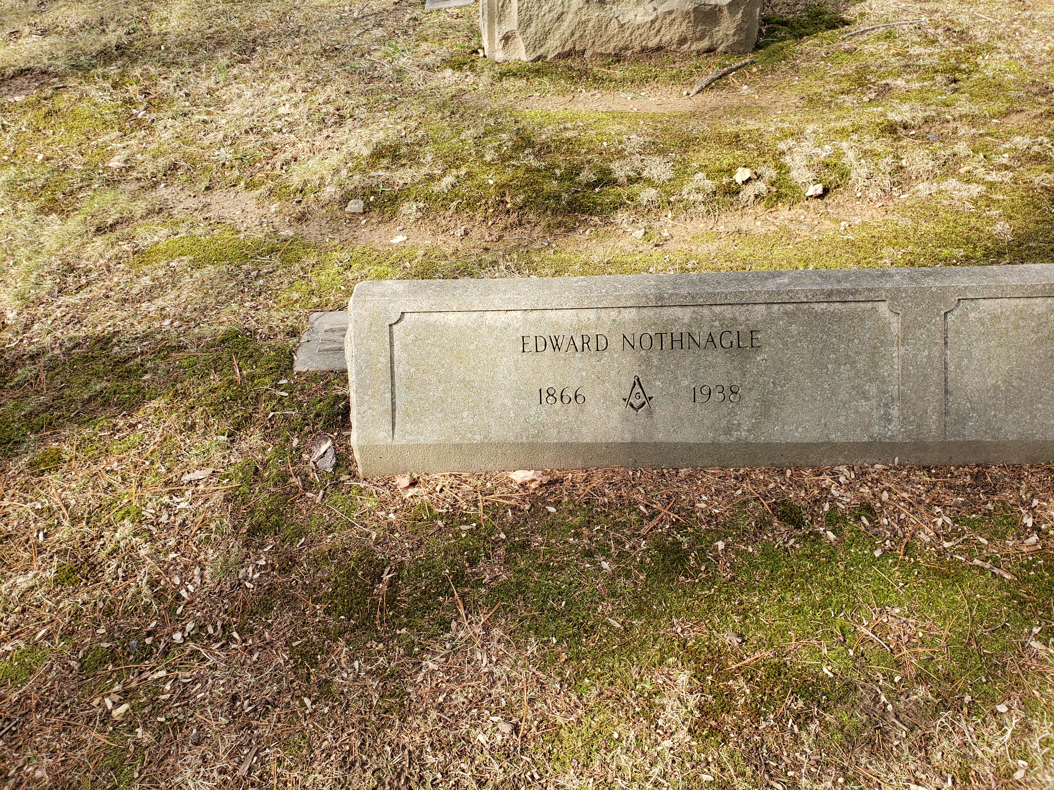 Edward Nothnagle grave at Chester Rural Cemetery in Chester, Pennsylvania. Photo taken January 2020.